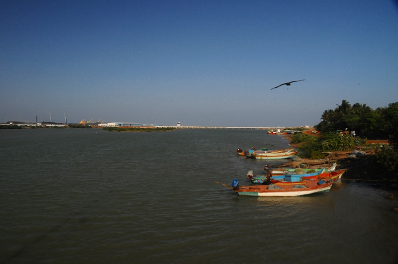 Fishing boats at Karaikal, South India. Though this small town and nearby area are surrounded by Tamil Nadu, this area was a French colony and is currently under the administrative control of the Union Territory of Puducherry (Earlier known as Pondicherry) India